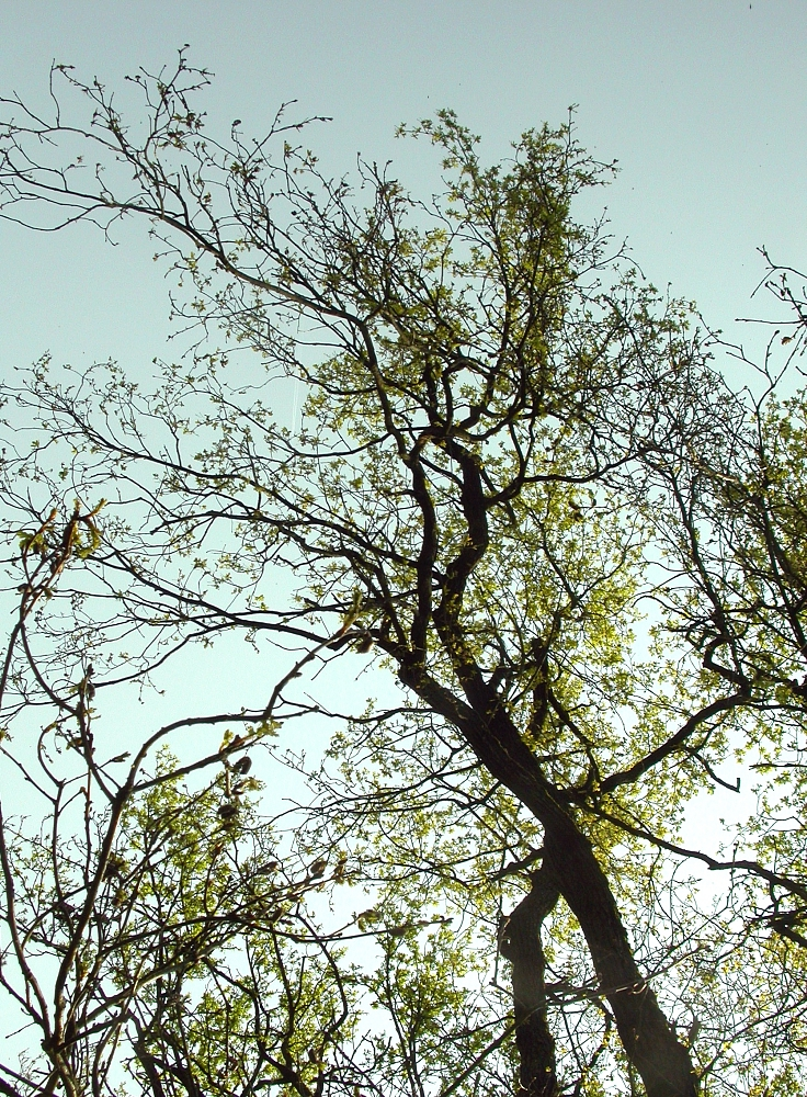 Quercus damaged by Melolontha hippocastani, Darmstadt, Germany